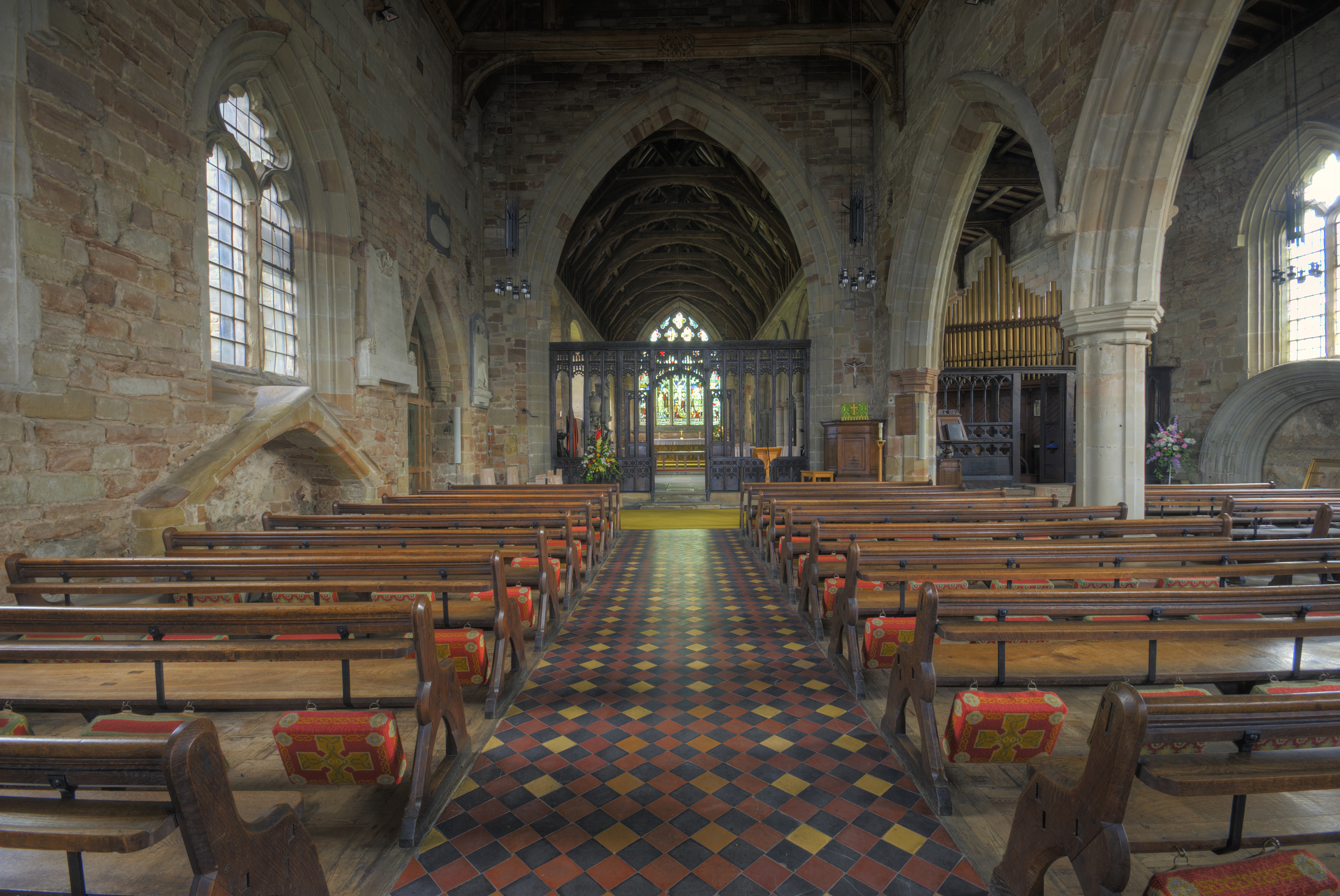 Inside the nave of St Andrew's parish church, Clifton Campville, Staffordshire, looking east to the chancel